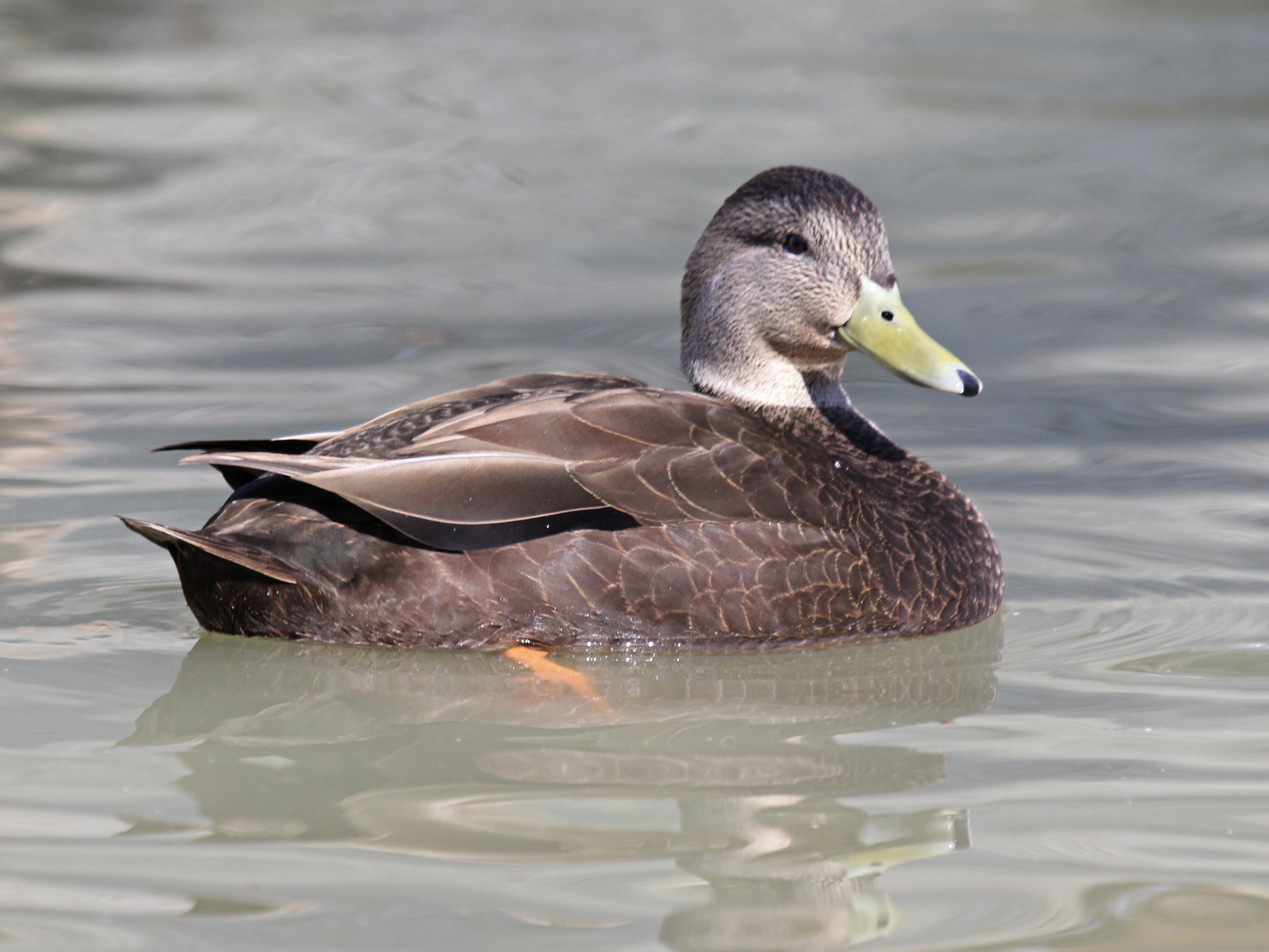 Male American Black Duck (Anas rubripes) - Sylvan Heights Waterfowl Park, Scotland Neck, North Carolina